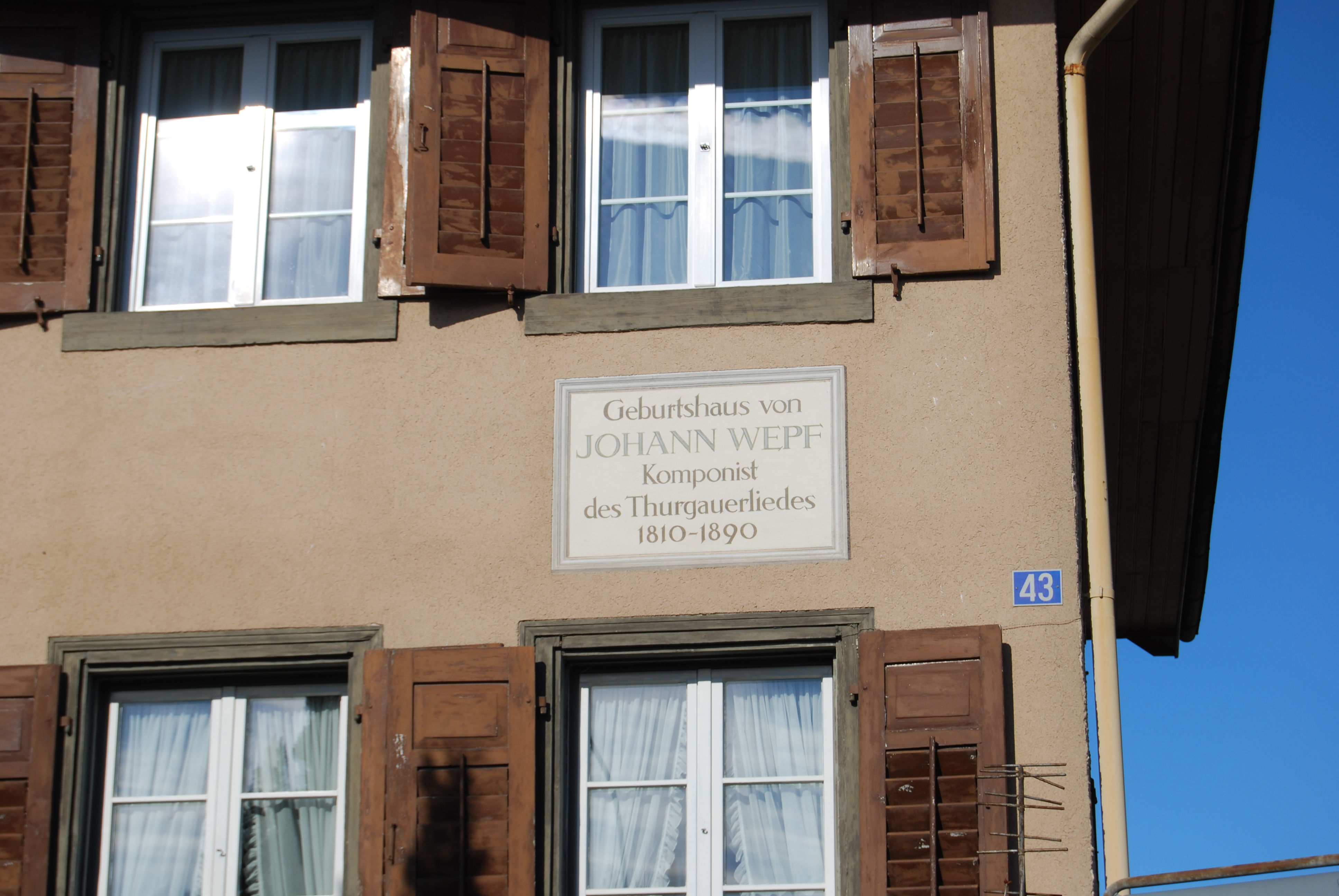 Native house of Johann Wepf, the composoer of the Thurgauer Lied, at Müllheim, canton of Thurgovia, SwitzerlandEsperanto: Naskiĝdomo de Johann Wepf, komponisto de la Turgovia Liedo, en Müllheim, Kantono Turgovio, Svislando